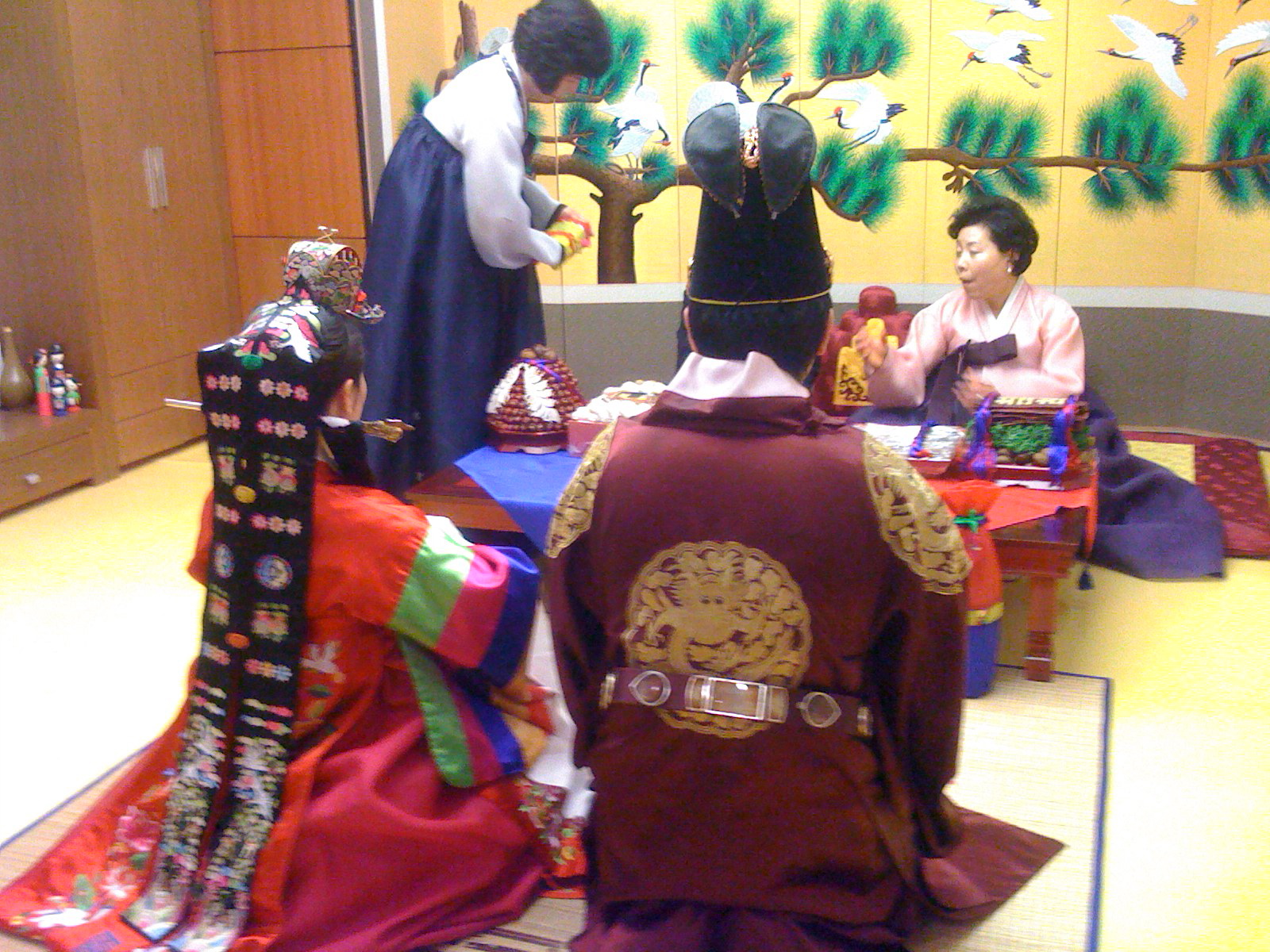 Pyebaek (폐백) is a Korean wedding custom that is traditionally held a few days after the official ceremony, with only family members present.